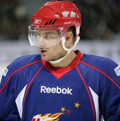 Jan Marek